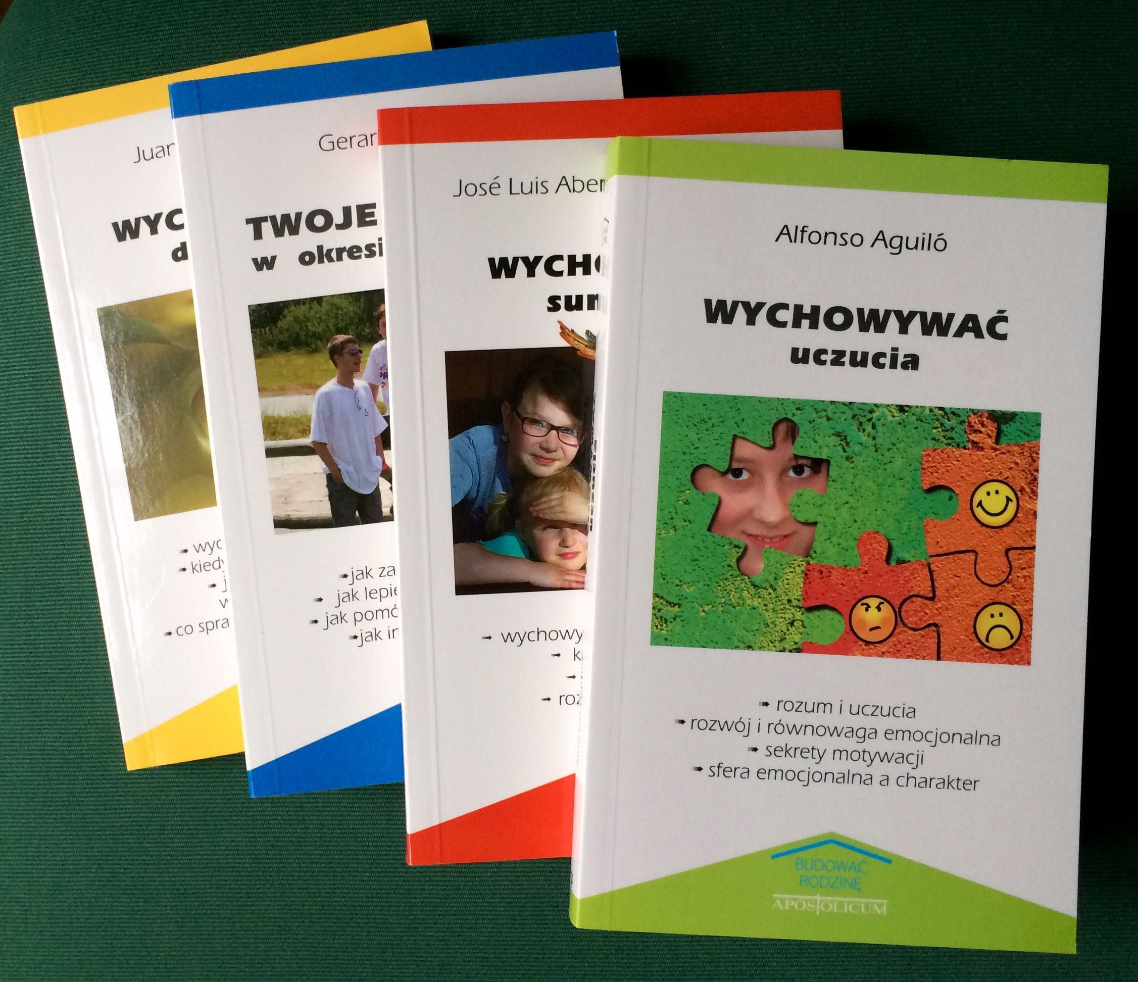 Books from the "Building Family" Collection